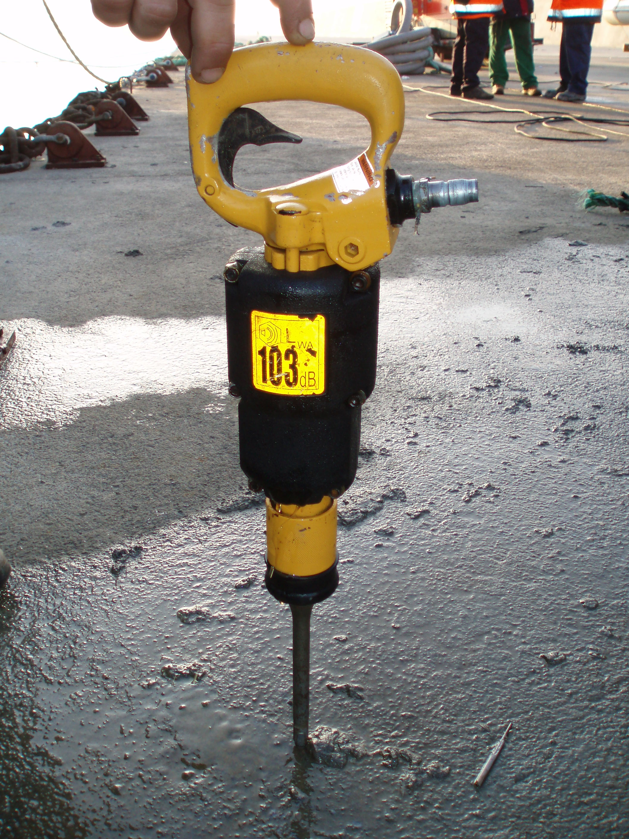 pneumatic drill